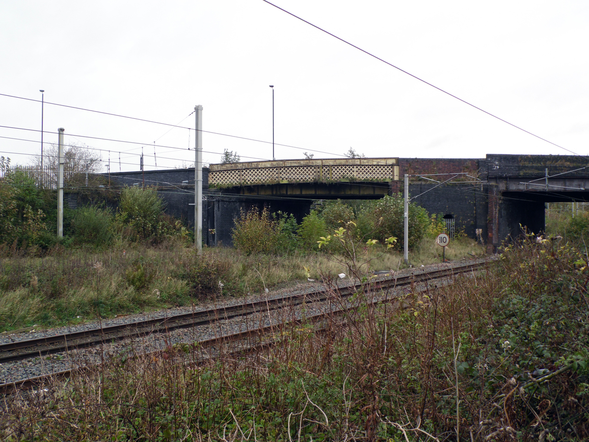 Photograph showing the site of Golborne North Railway Station. Whilst not obvious to the eye from street level, there are some telltale signs that there was something there, as the brickwork changes in places.